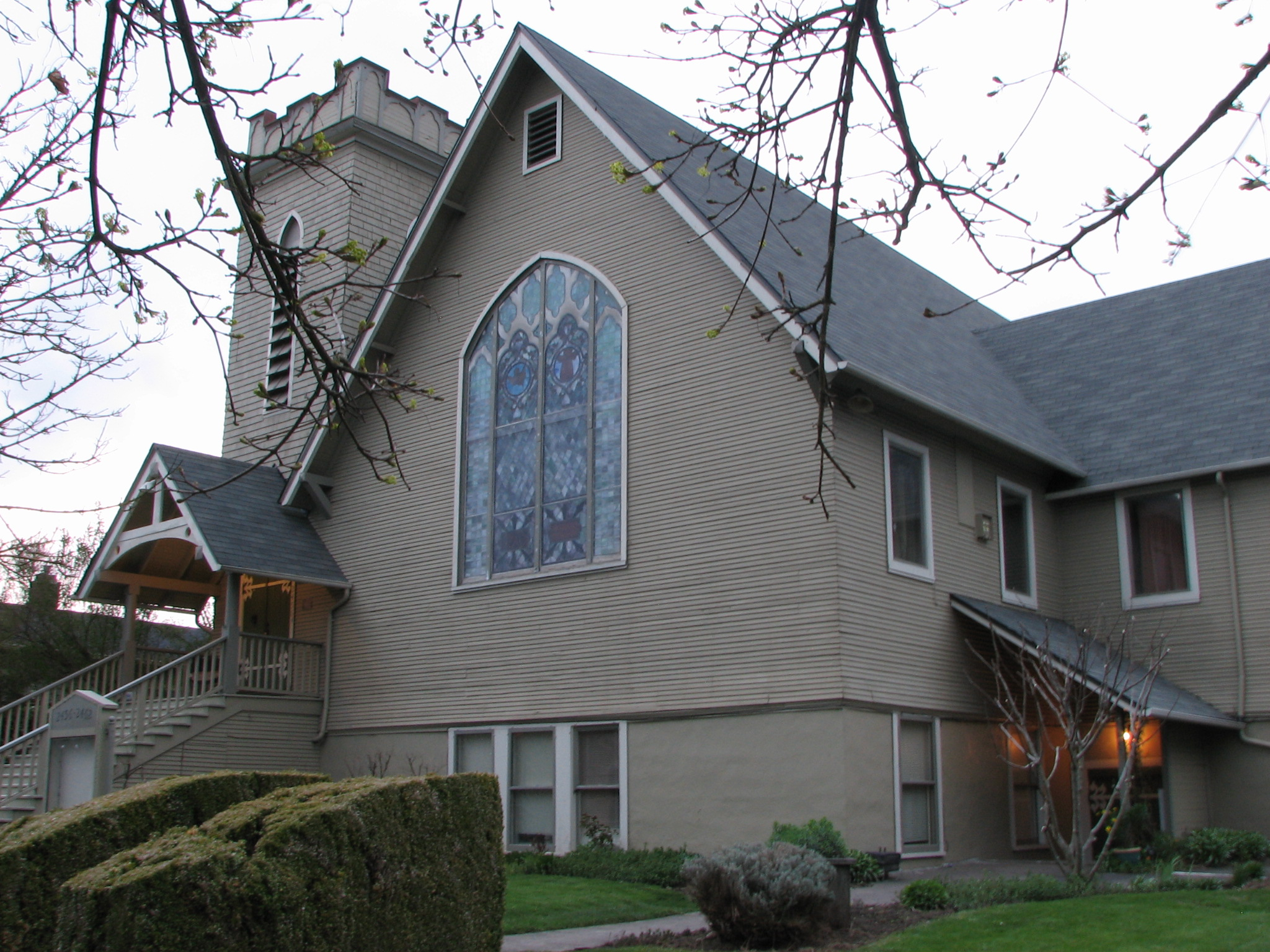 The Mizpah Presbyterian Church of East Portland at 2456-2462 Southeast Tamarack Avenue in Portland, Oregon, United States, is listed on the US National Register of Historic Places. It is no longer in its historic use as a church.